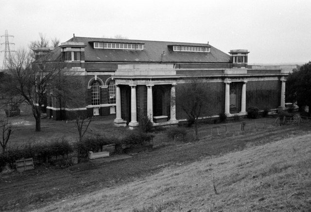 King George V Pumping Station The UK's only Humphrey pump installation. This was opened in 1913 but has long relied on electric pumps. The structure in front with Portland stone doric columns houses the open topped surge vessels. These were an integral part of the system as it relied on an oscillating body of water to act as the piston in an internal combustion engine.